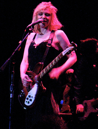 Courtney Love playing with Hole at the Wellmont Theater, June 25, 2010.